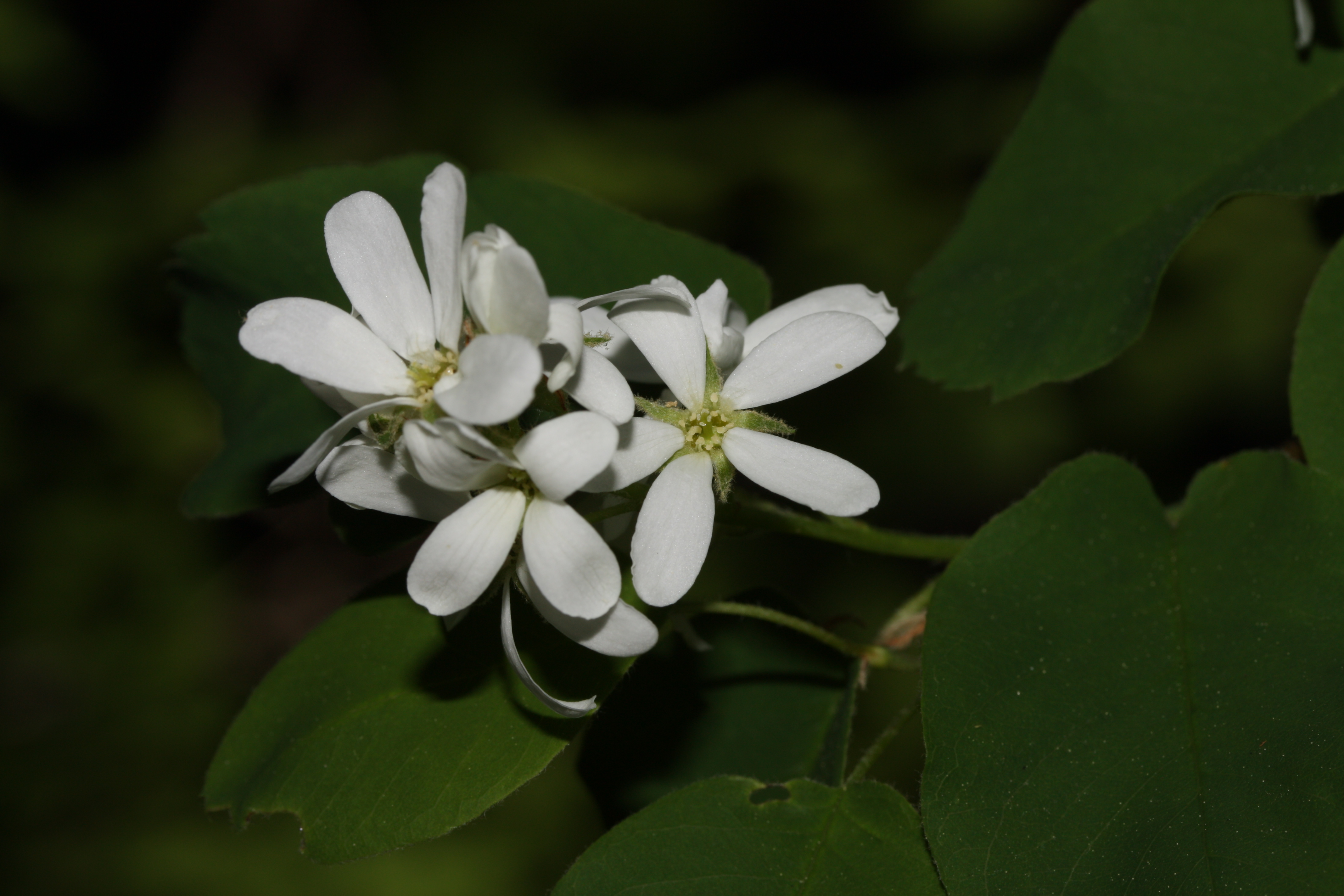 Western Serviceberry